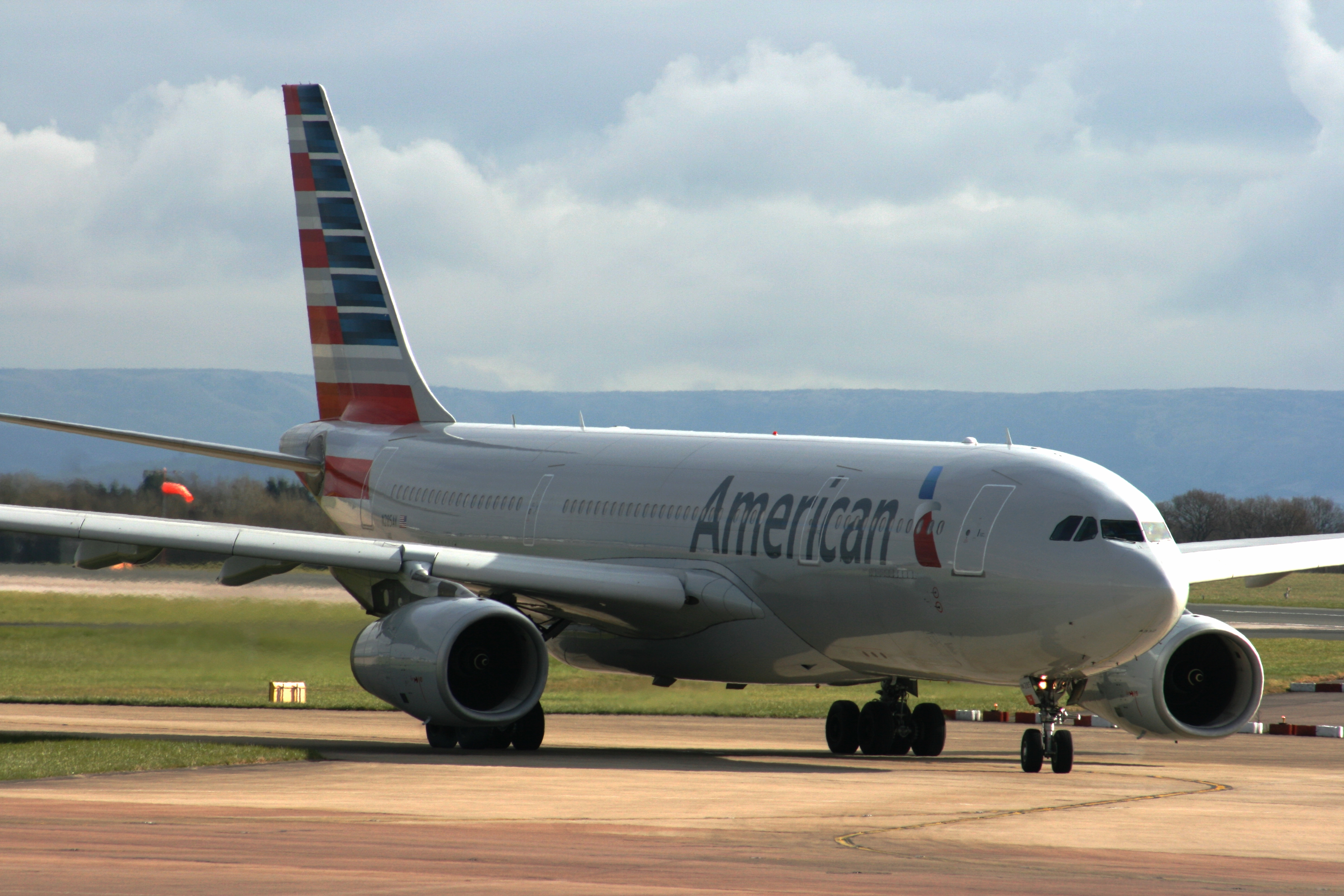 American Airlines Airbus A330-243